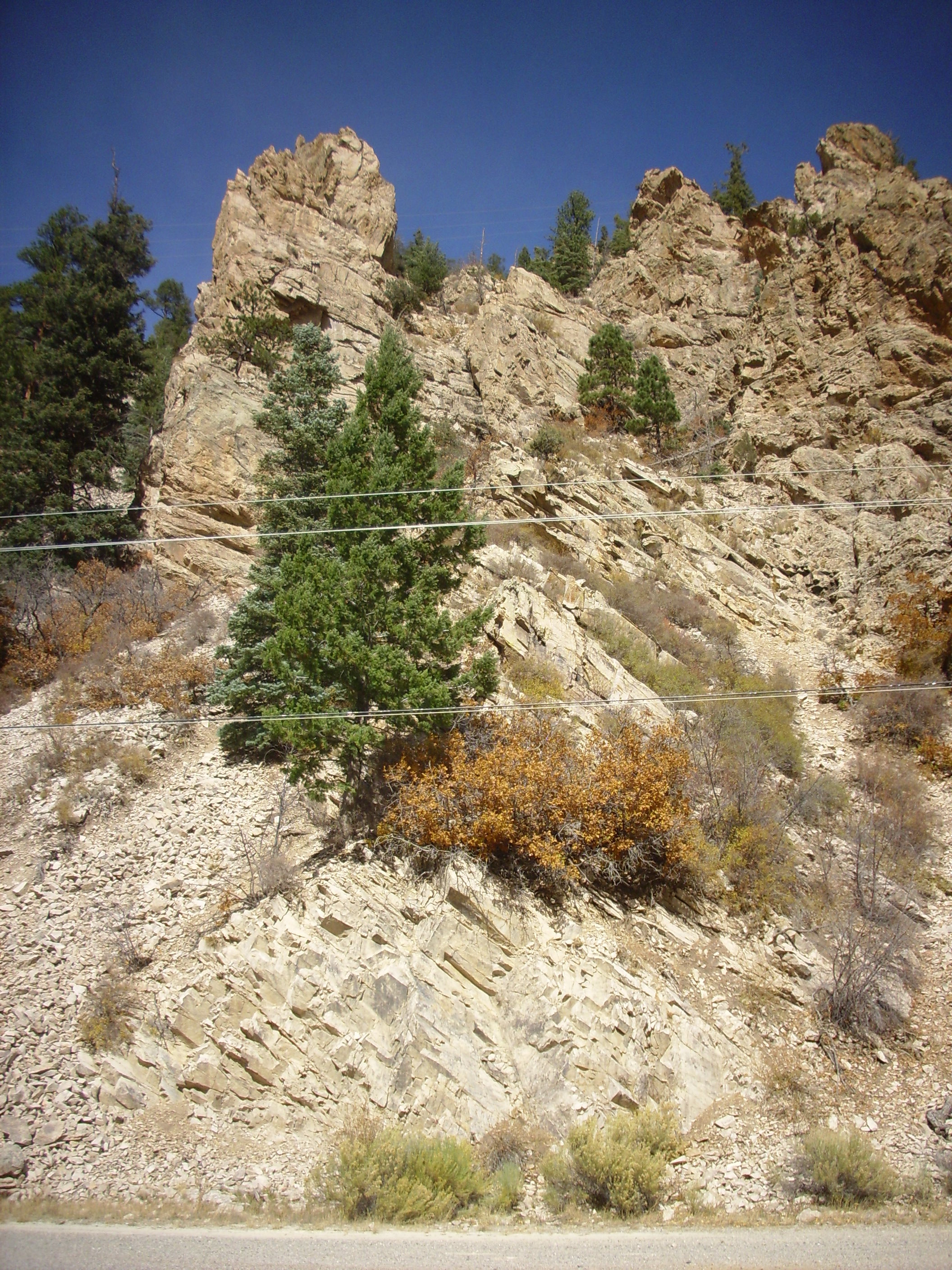 This image shows an outcrop of the Sulfur Gulch pluton near the Questa molybdenum mine, New Mexico, USA. The Sulfur Gulch pluton is the principal ore-bearing unit.